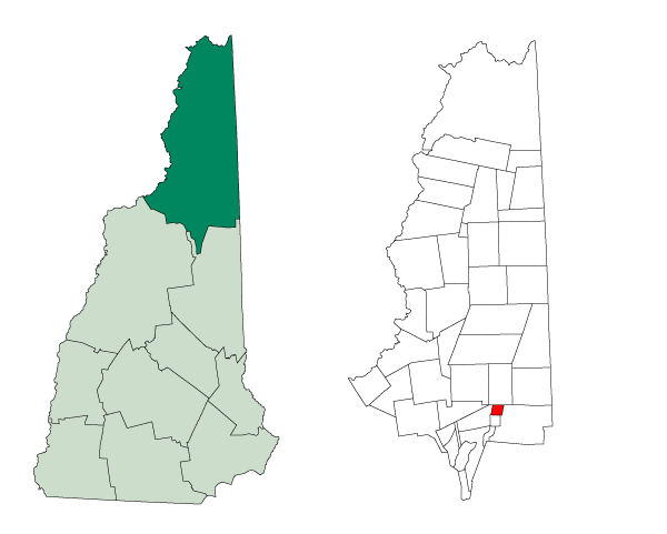 Map of a municipality in Coos County, New Hampshire